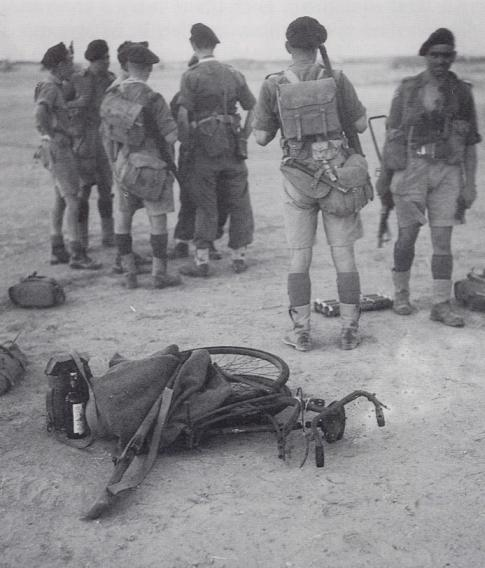 1st Border troops shortly before take-off on operation Ladbroke on the 9th July